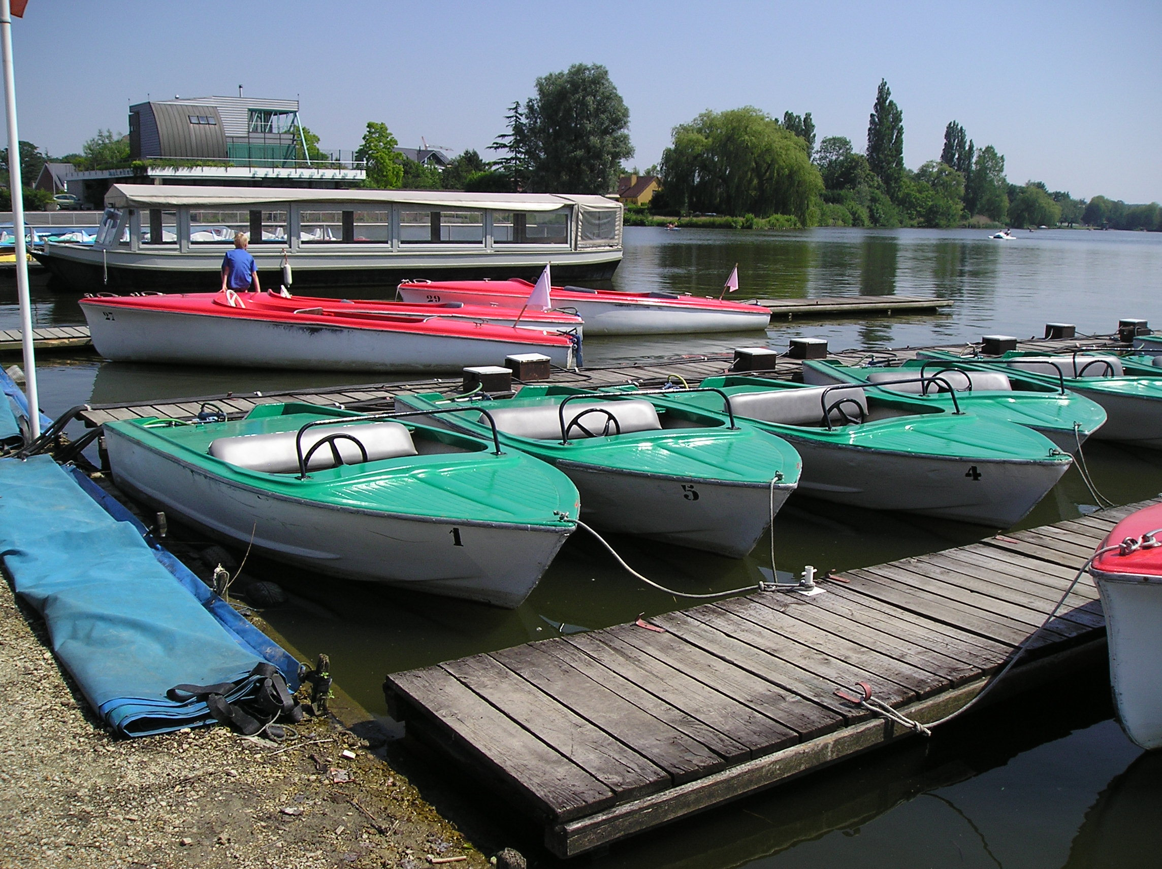 Electric boats for hire. Donkmeer lake